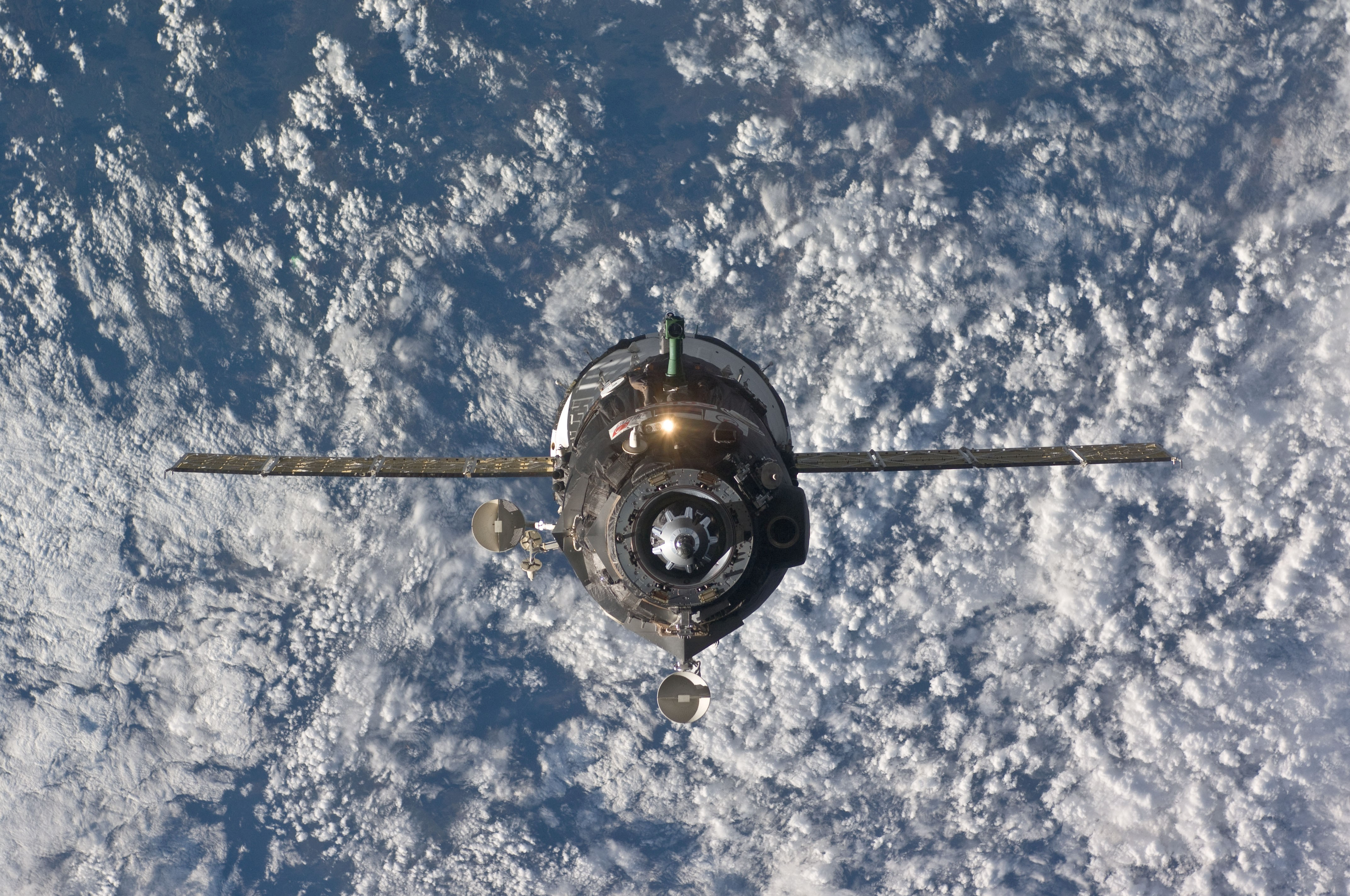 The Soyuz TMA-19 spacecraft relocates from the Zvezda Service Module's aft port to the Rassvet Mini-Research Module 1 (MRM1) of the International Space Station. Russian cosmonaut Fyodor Yurchikhin; along with NASA astronauts Doug Wheelock and Shannon Walker, all Expedition 24 flight engineers, undocked their Soyuz spacecraft from Zvezda's aft end at 3:13 pm. (EDT) on June 28, 2010, and docked it to its new location on the recently installed Rassvet module 25 minutes later.